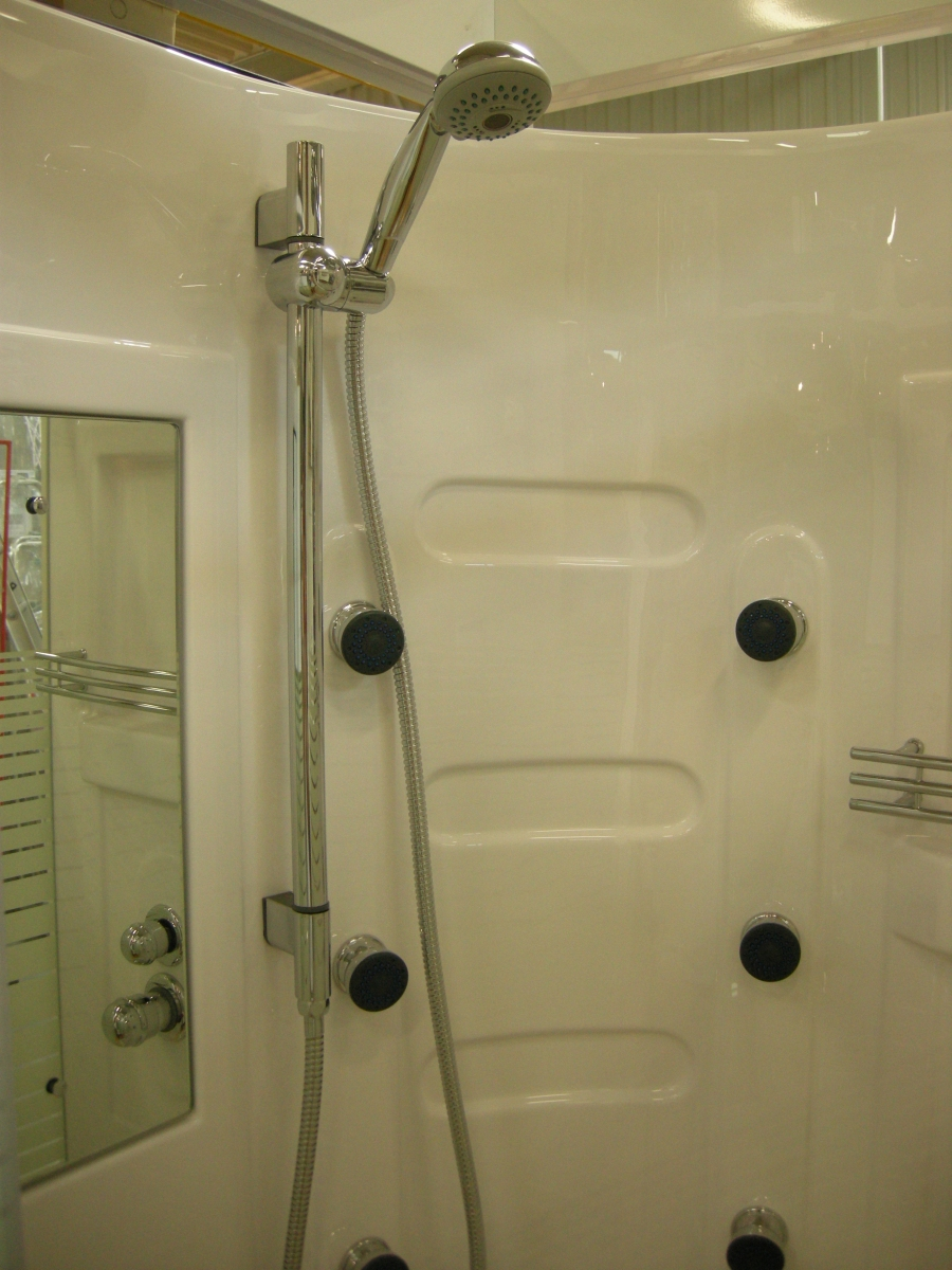 A shower cubicle with a showerhead.